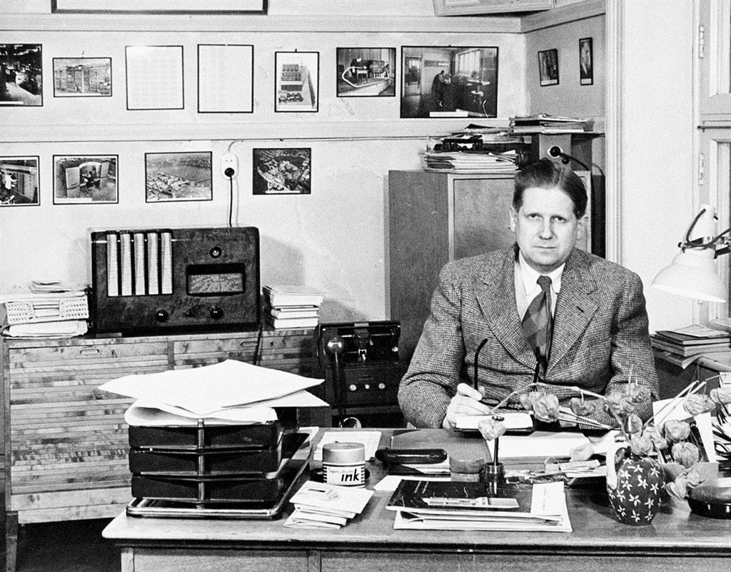 Swedish professor Stig Ekelöf (1904-1993)